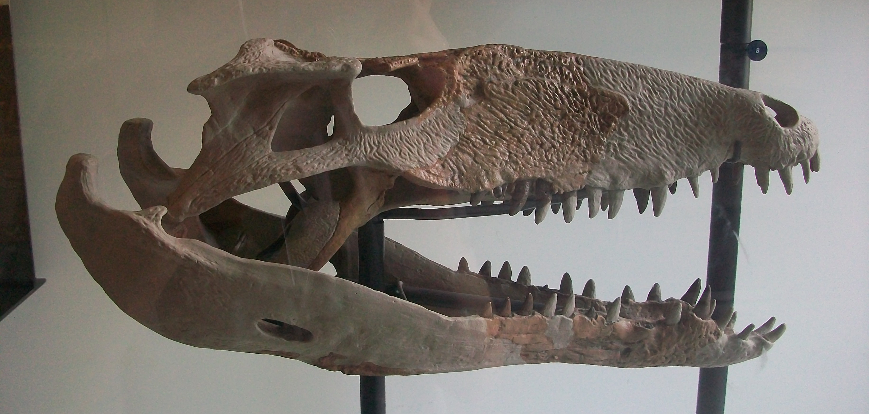 A cast of the skull of Sebecus icaeorhinus (specimen AMNH 3160) in the American Museum of Natural History.